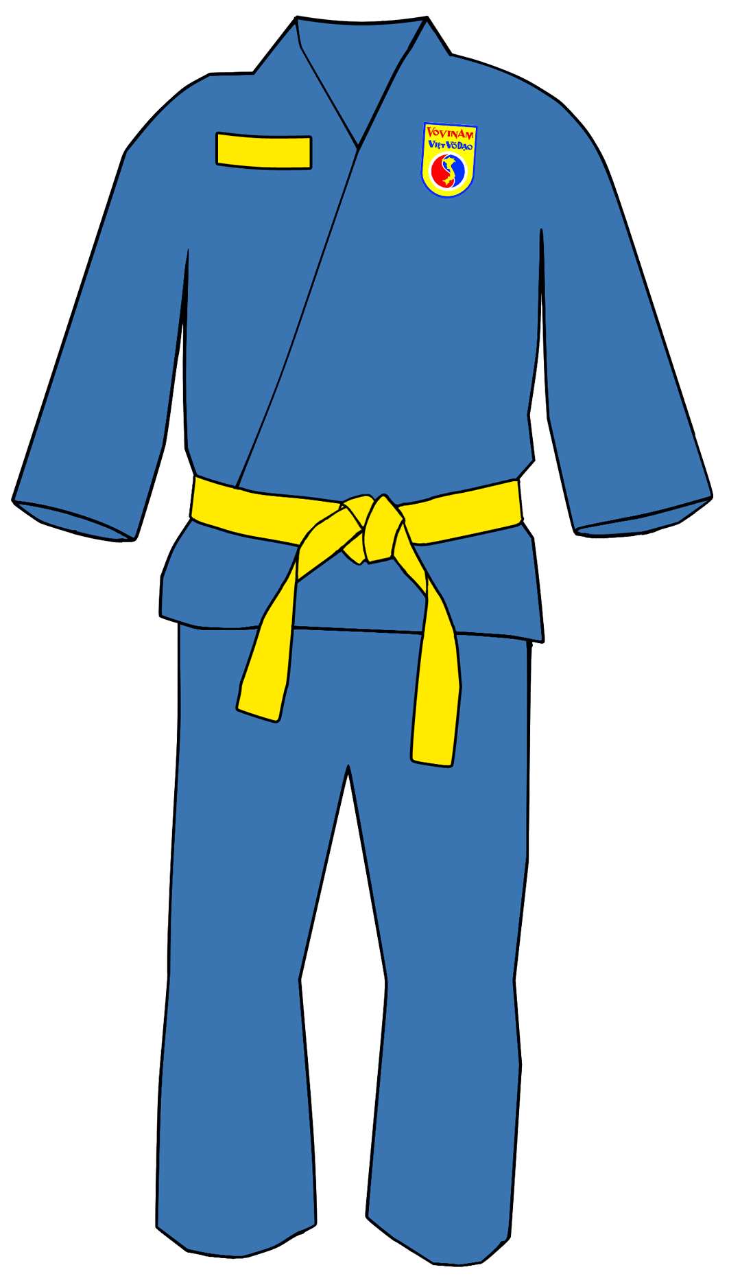 Vovinam vophuc, official uniform of those who practice the martial art